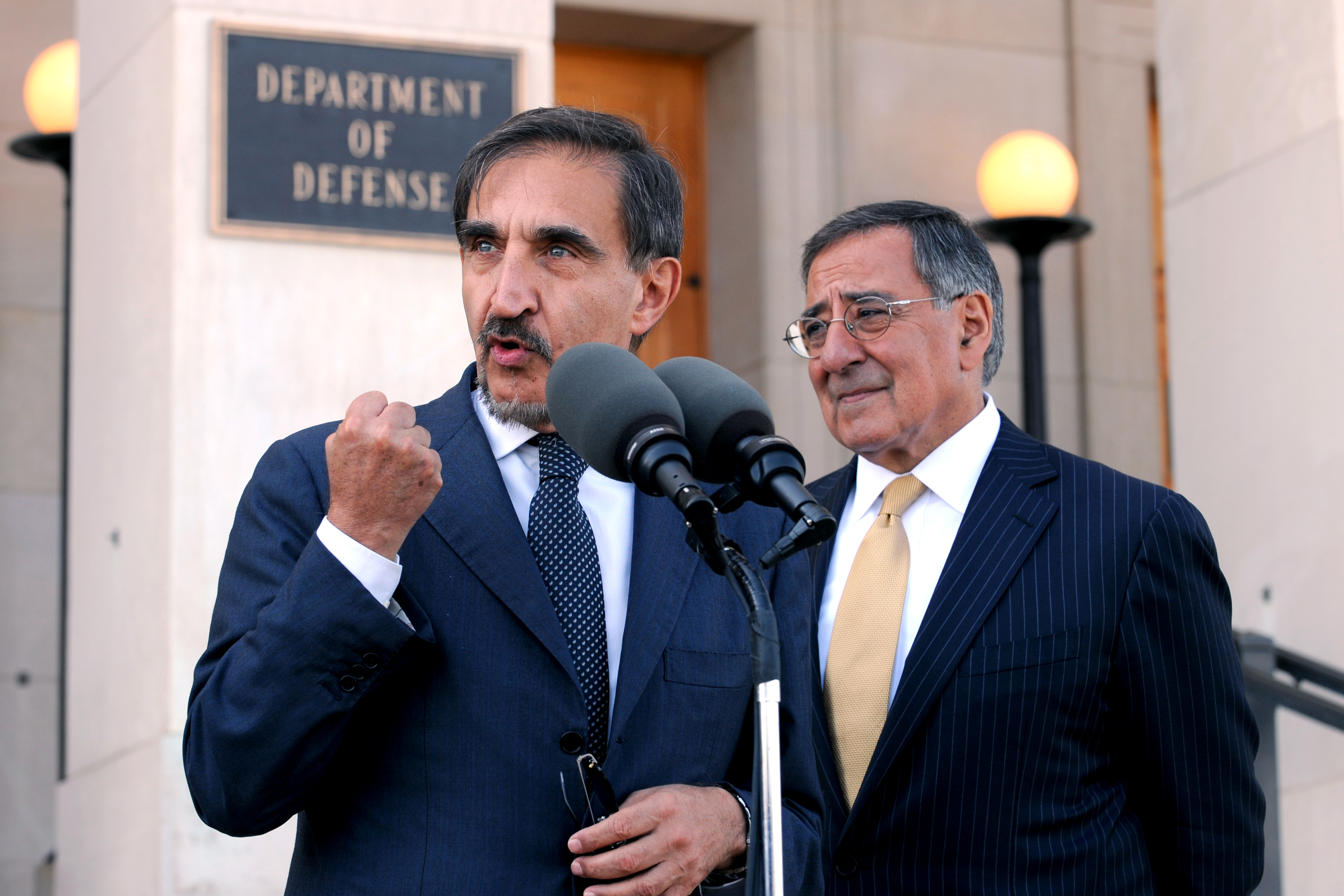 Italian Defense Minister Ignazio La Russa, left, responds to a reporter's question during a media availability with Secretary of Defense Leon Panetta outside the Pentagon in Arlington, Va., on Oct. 17, 2011. Panetta and La Russa met earlier for a working lunch to discuss security issues of interest to both nations.